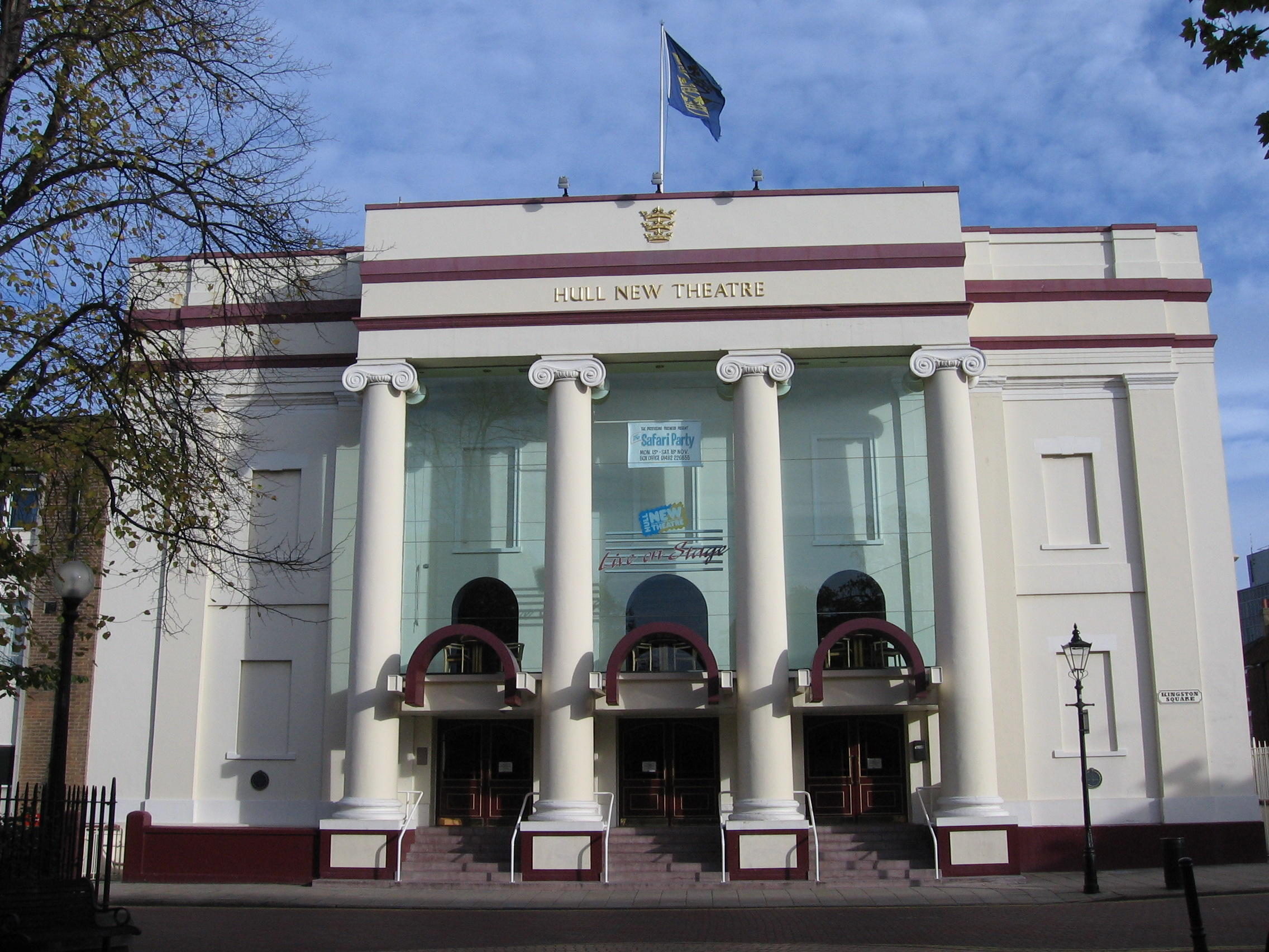 Photo taken by me on 12 November 2006. Hull New Theatre, Hull, East Riding of Yorkshire.